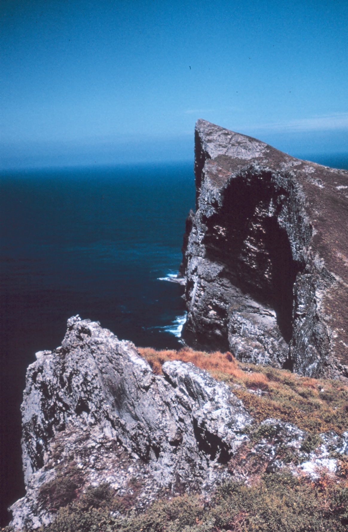 The cliffs of Tanager Peak, Nihoa, Northwestern Hawaiian Islands. View from Miller's Peak looking east